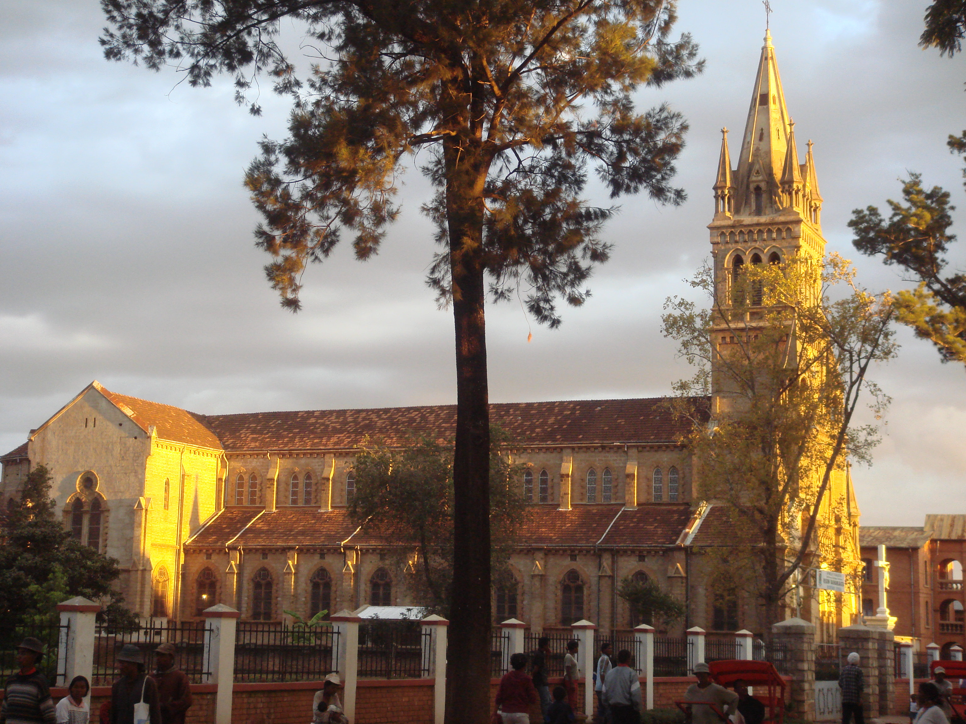 Antsirabe cathedral, Madagascar